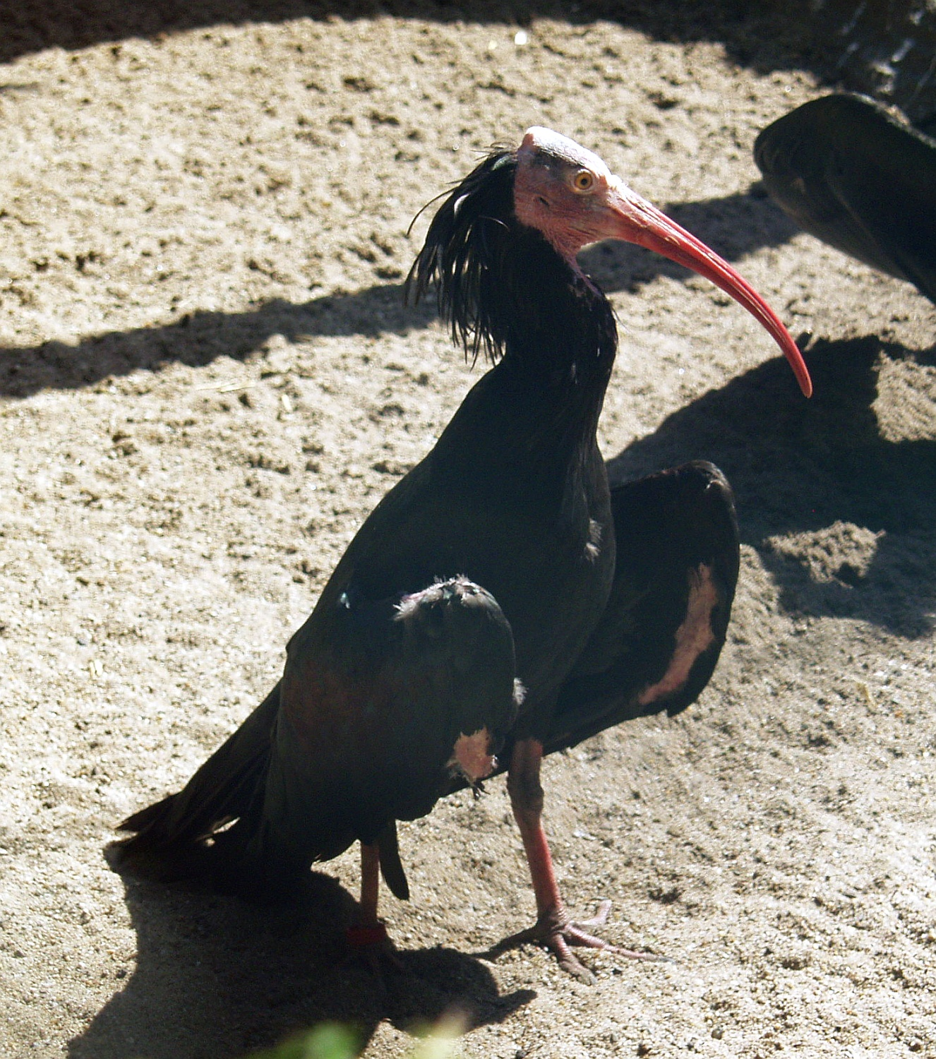 Northern Bald Ibis (Geronticus eremita) at Zoo Duisburg, Germany